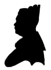 Silhouette by Persis G. Taylor, 1839, of High Chieffess Kapi'olani who lived on the island of Hawaii from c. 1781 to 1841. She was an early convert to Christianity, became very famous in the last half of the nineteenth century, and was the subject of a poem by Alfred, Lord Tennyson. She was related to many of Hawaiian royalty; the later Queen Kapi'olani is her namesake.